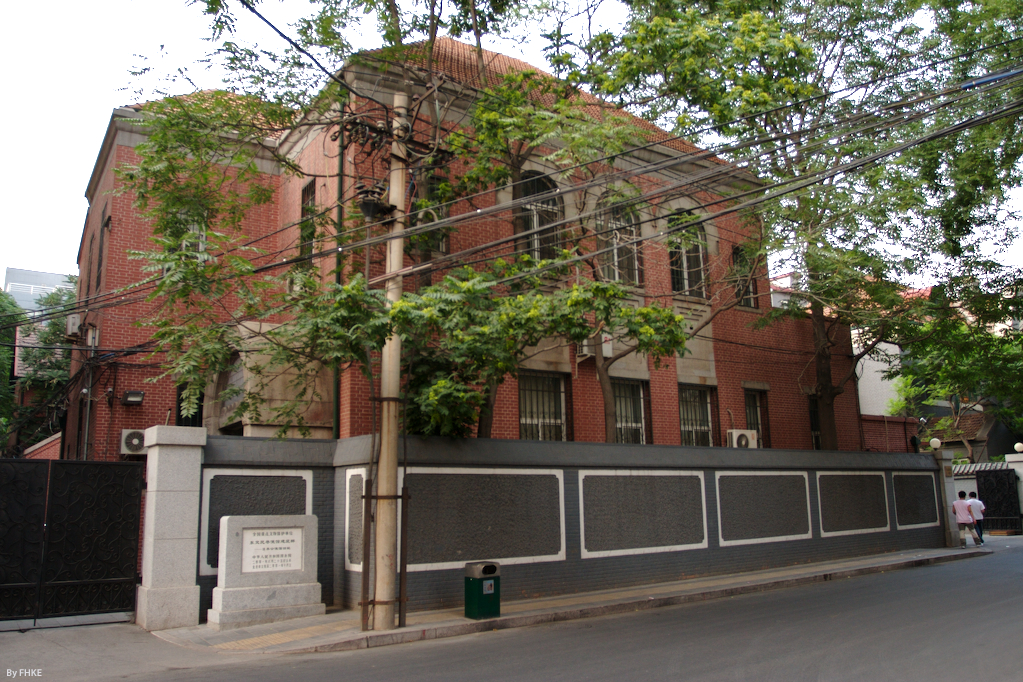 ??????? Former Japan Embassy